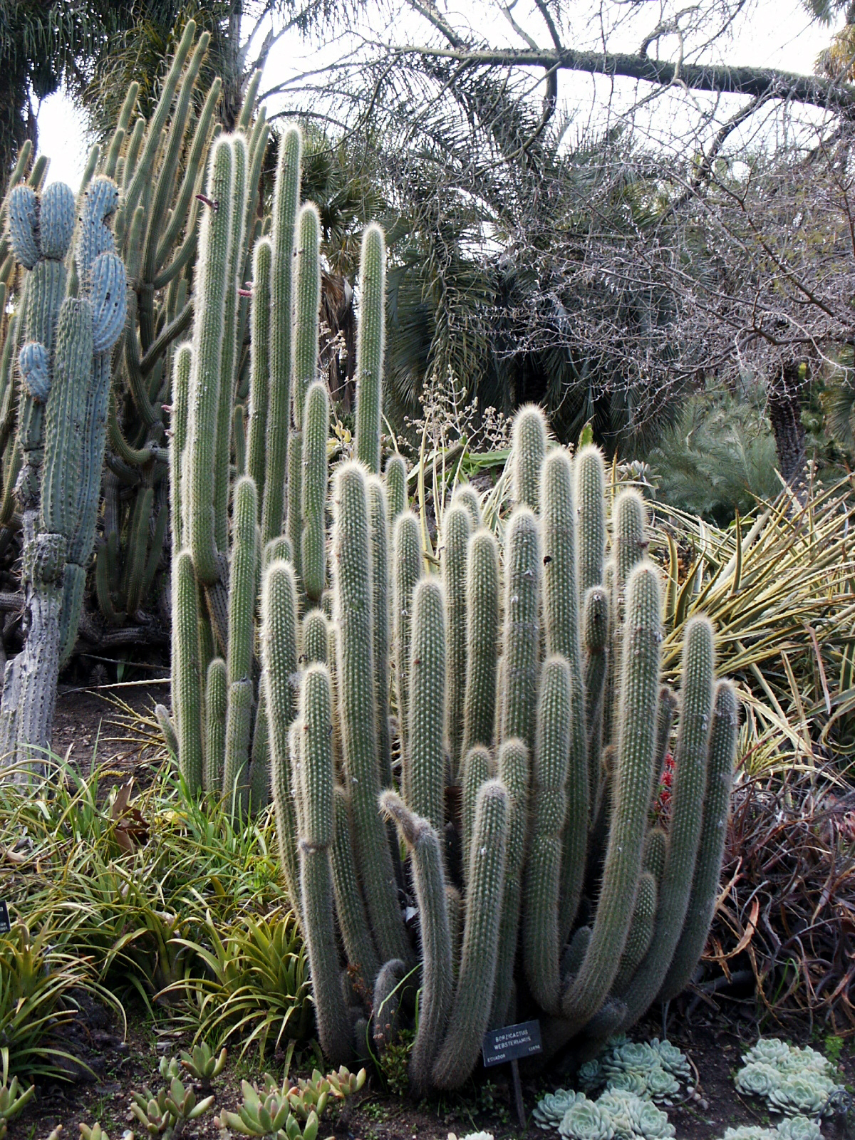 Cleistocactus sepium (syn' Borzicactus websterianus) and other tall cacti, Huntington Library Desert Botanical Garden in afternoon after and during rain, February 2009 - Various cactus and succulent plants